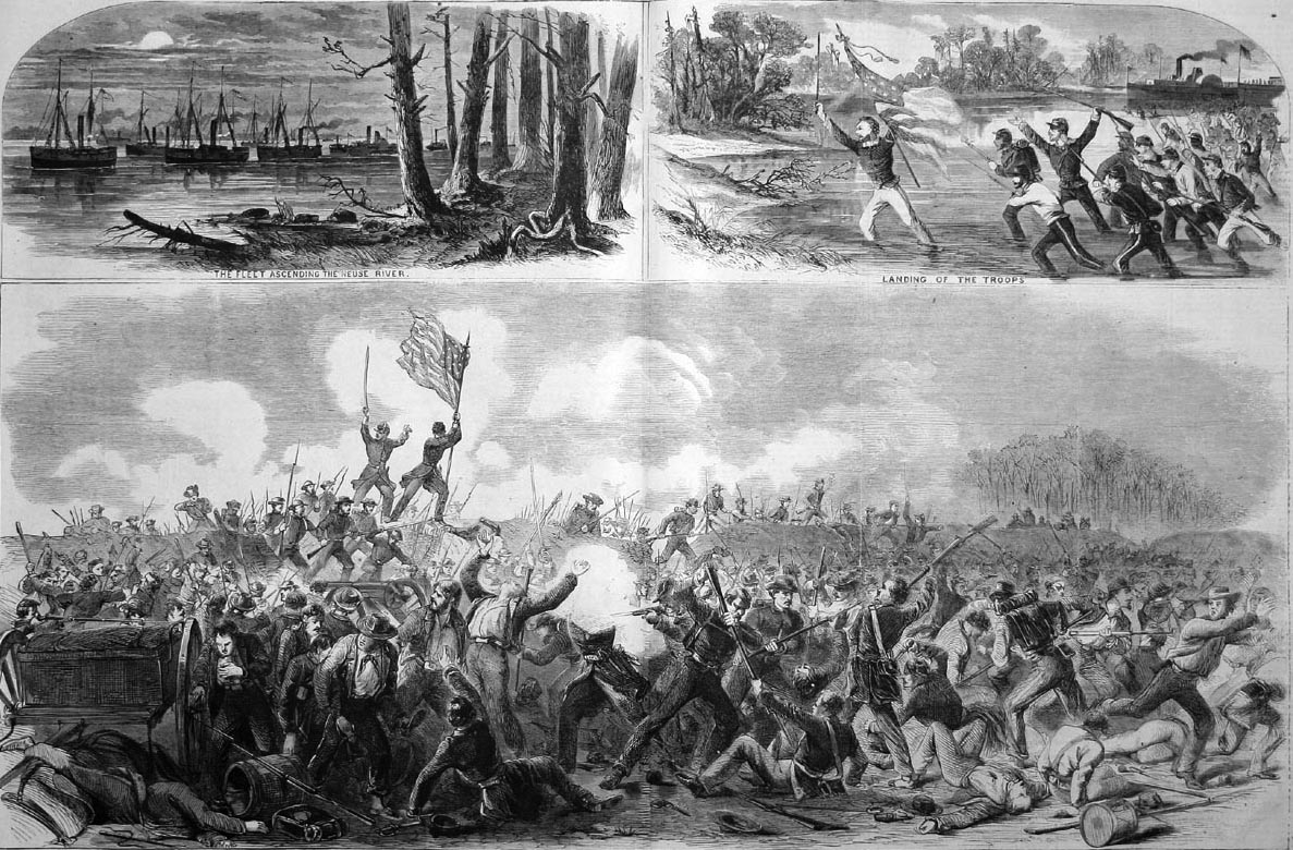 "The Battle of New Bern," illustration in "Harper's Weekly" magazine, April 5, 1862, pp. 216-217. Image courtesy of .